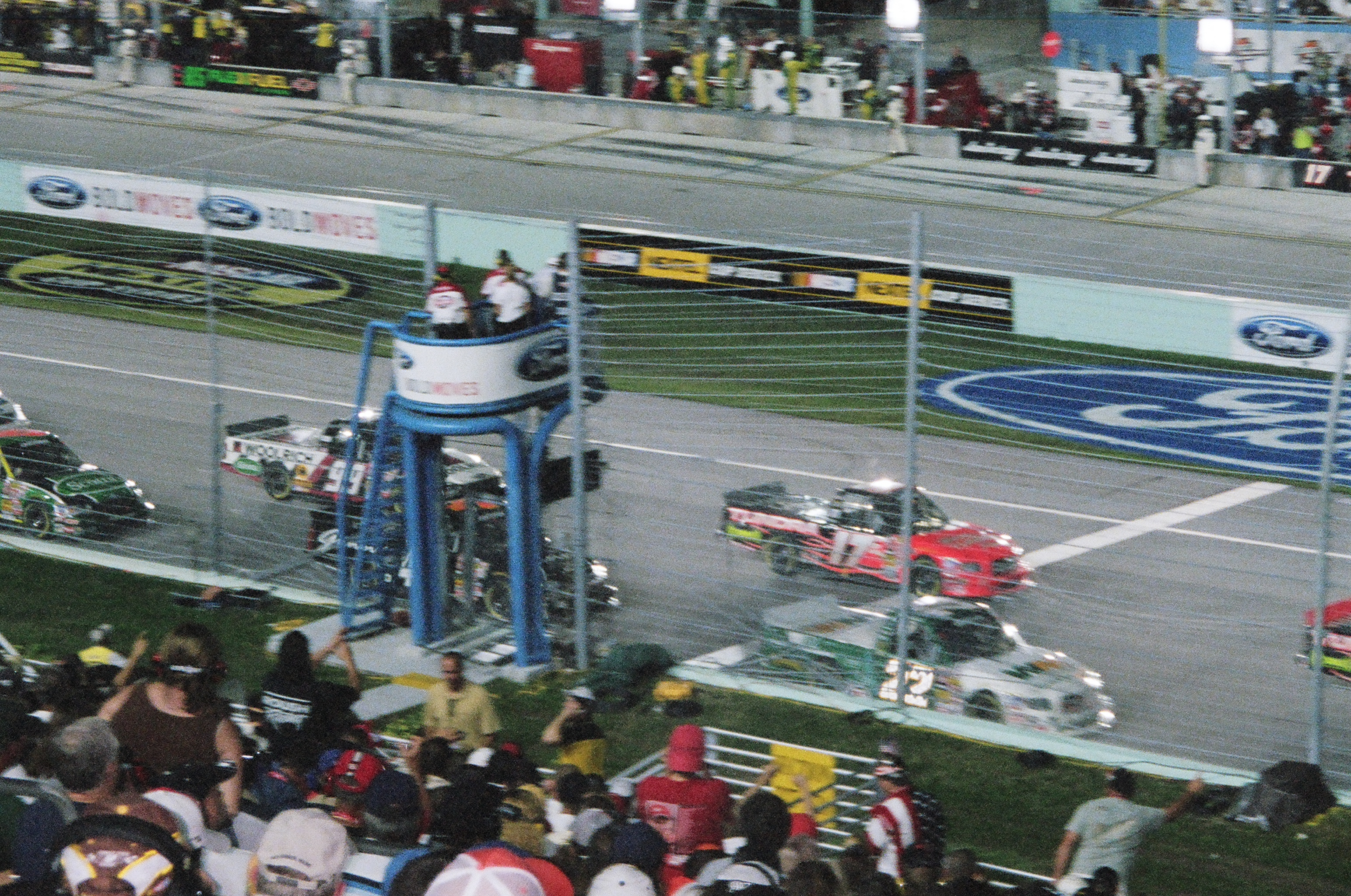 The field for the 2006 Ford 200 gets the one to go signal.